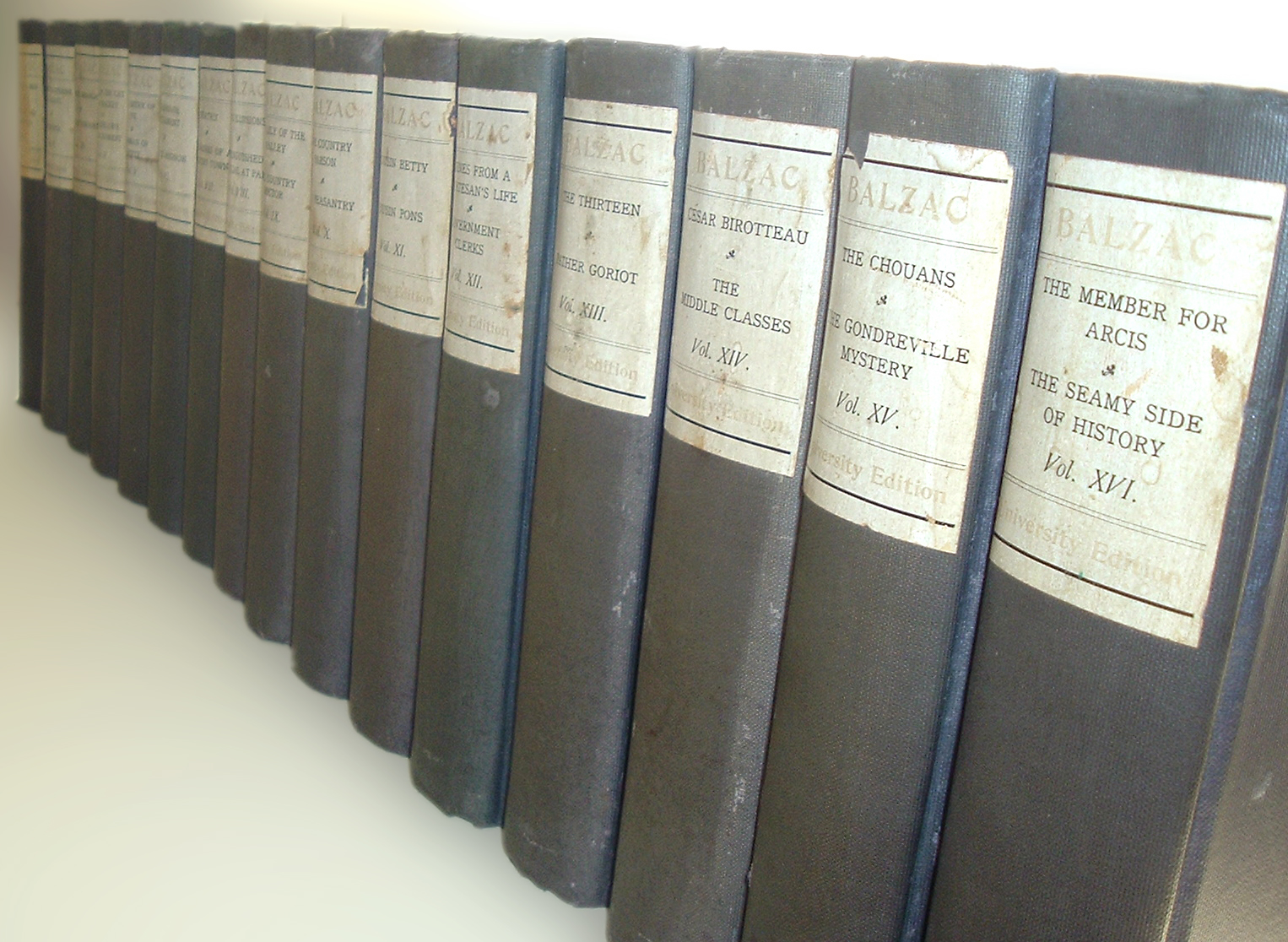 The 16-volume English collection The Complete Works of Honoré de Balzac, including the entirety of La Comédie humaine